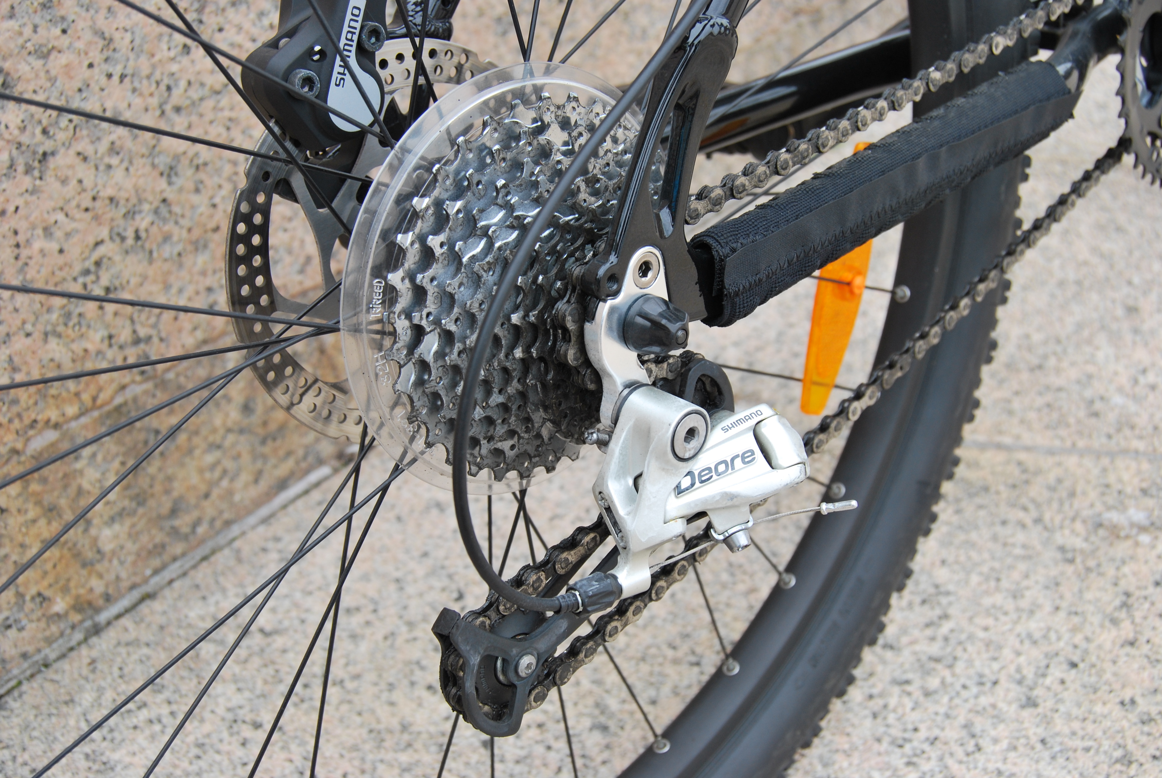 Bicycle Trek 6000 disc. Type Cross Country. MTB (year 2007)